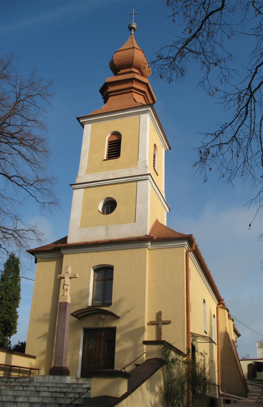 Church of Veľký Lapáš